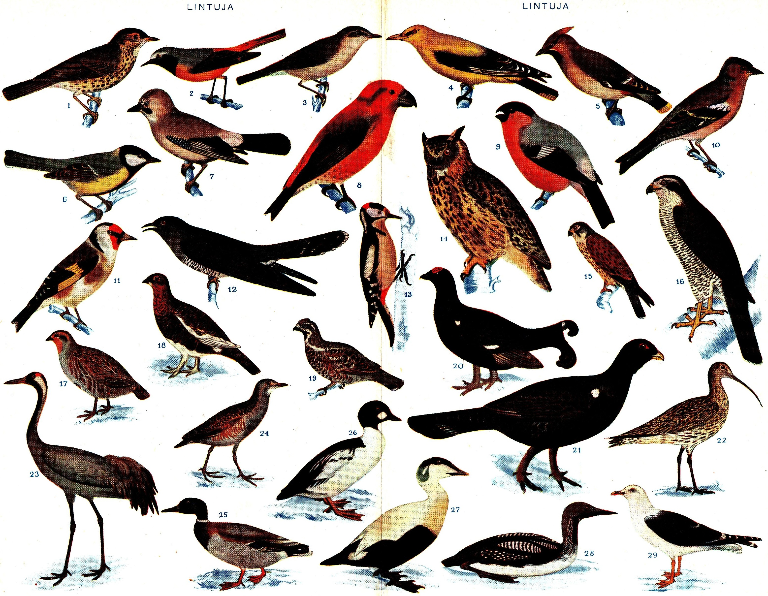 29 different birds of Finland